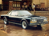 1978 Dodge Diplomat